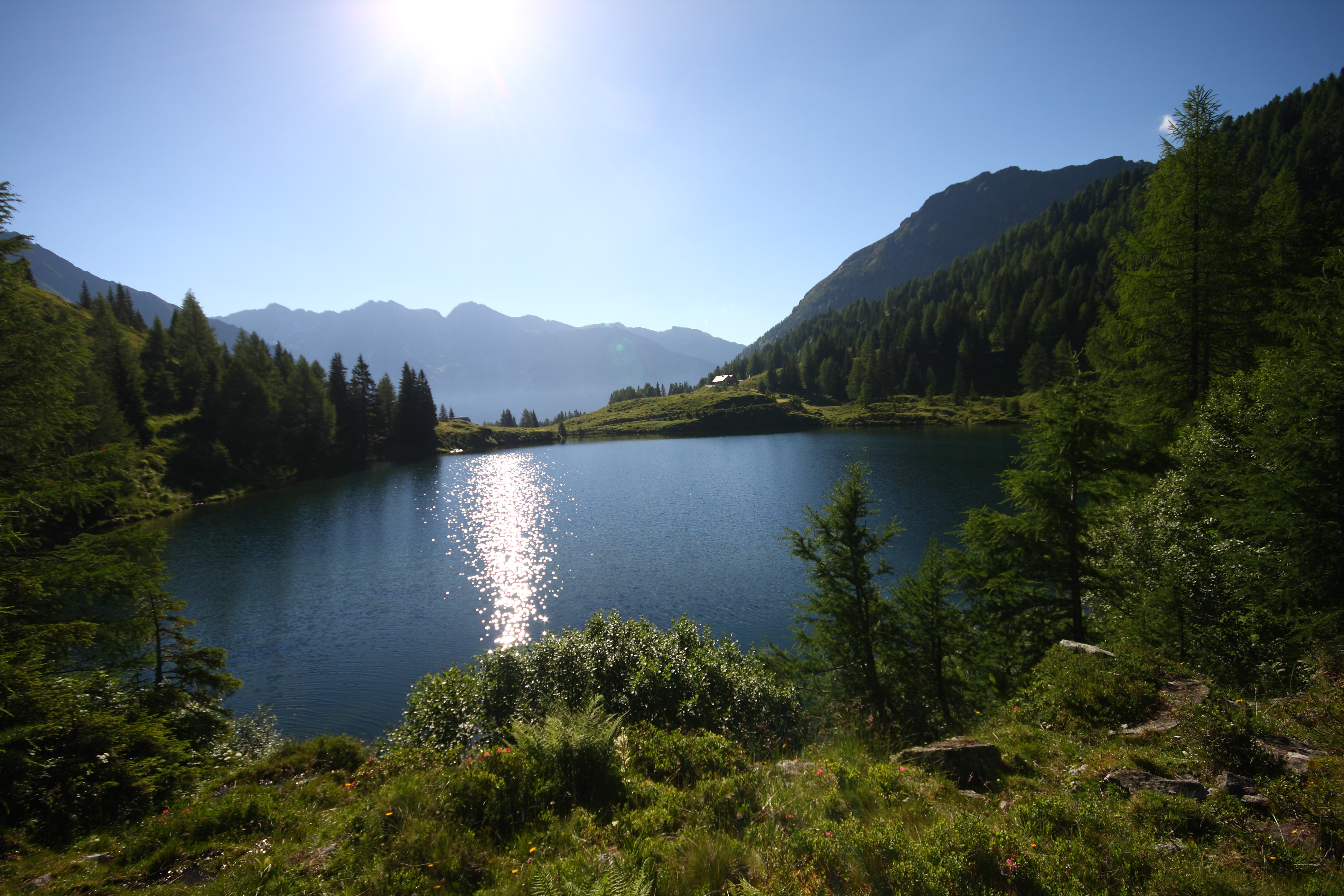 Wirpitschsee, Weißpriach, Lungau, Austria